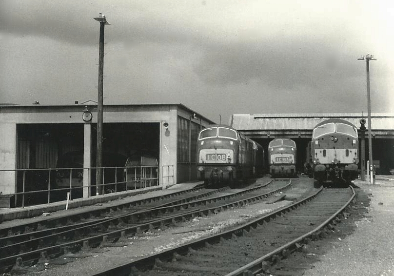 Newton Abbot MPD, 08/66. Fron left to right (inside left shed): North British Type 2 (Class 22) No.D6329, BR (Swindon) Type 4 (Class 52) No.D1020 "Western Hero"; (outside right shed): North British Type 4 (Class 43) "Warships" Nos.D855 "Triumph", D852 "Tenacious", BR (Swindon) Type 4 (Class 42) "Warship" No.D816 "Eclipse" and North British Type 2 (Class 22) No.D6325. Scanned photograph taken with a Kowa SET.